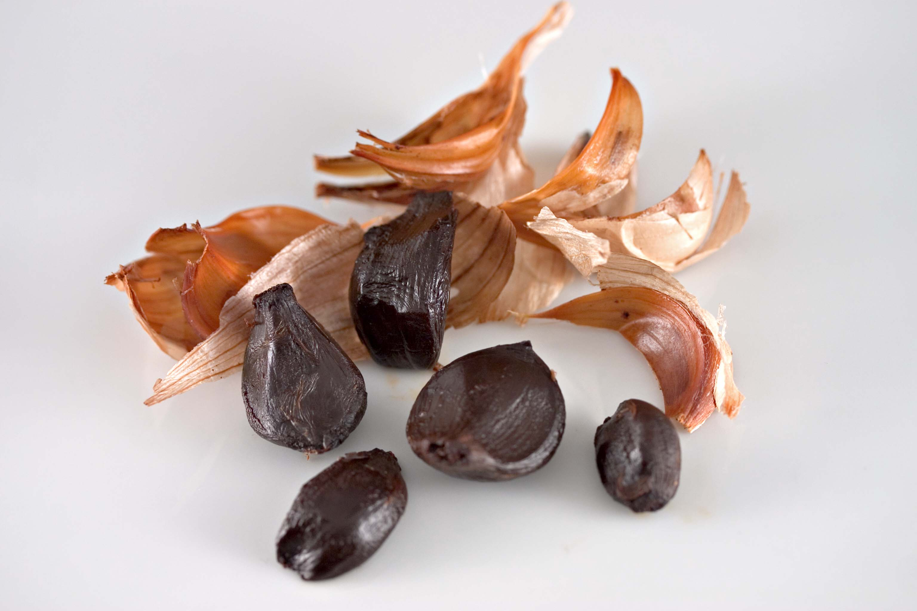 peeled fermented black garlic